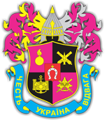 Hetman Petro Sahaidachnyi National Army Academy